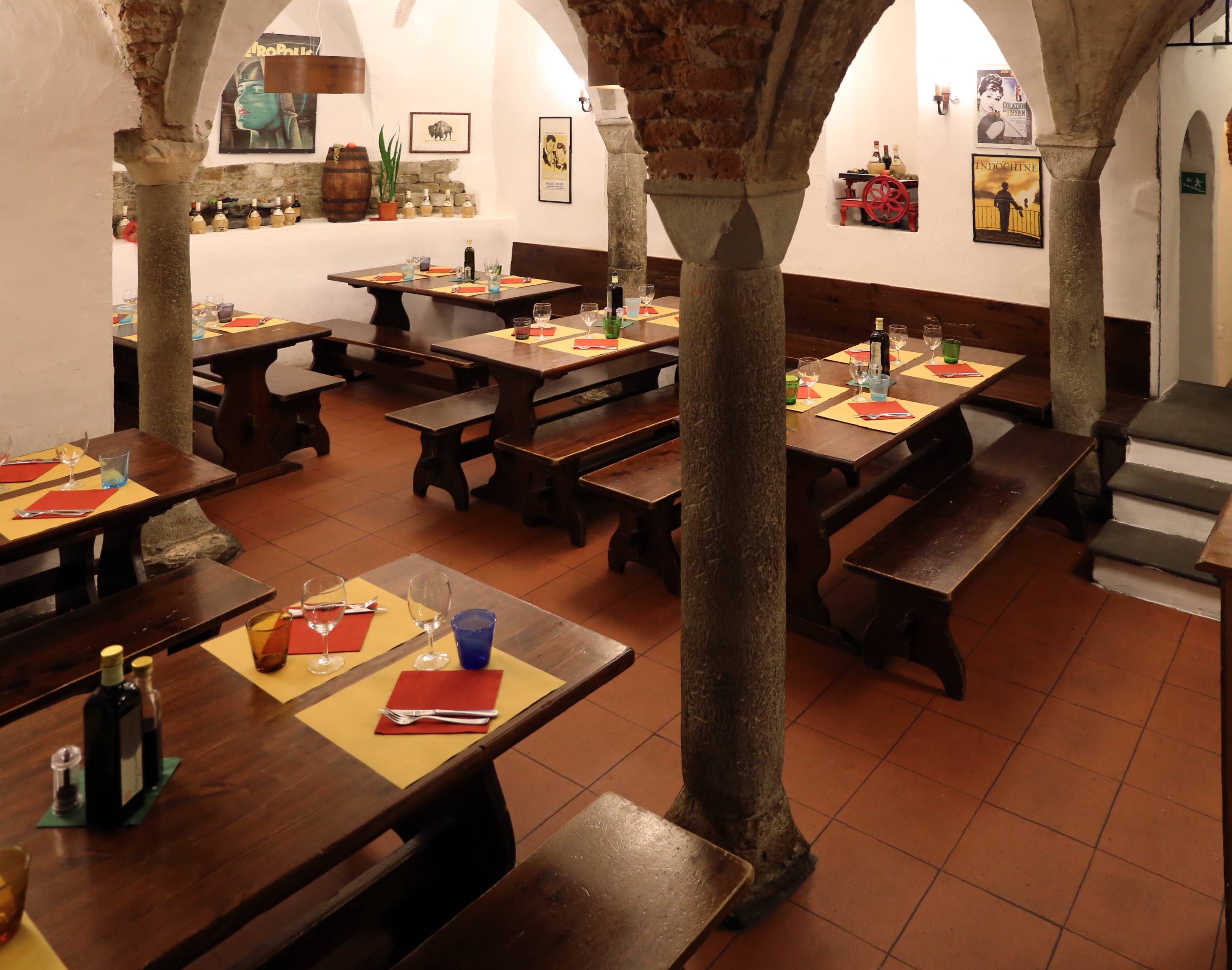 San Niccolò sopr'Arno (Florence) - Crypt